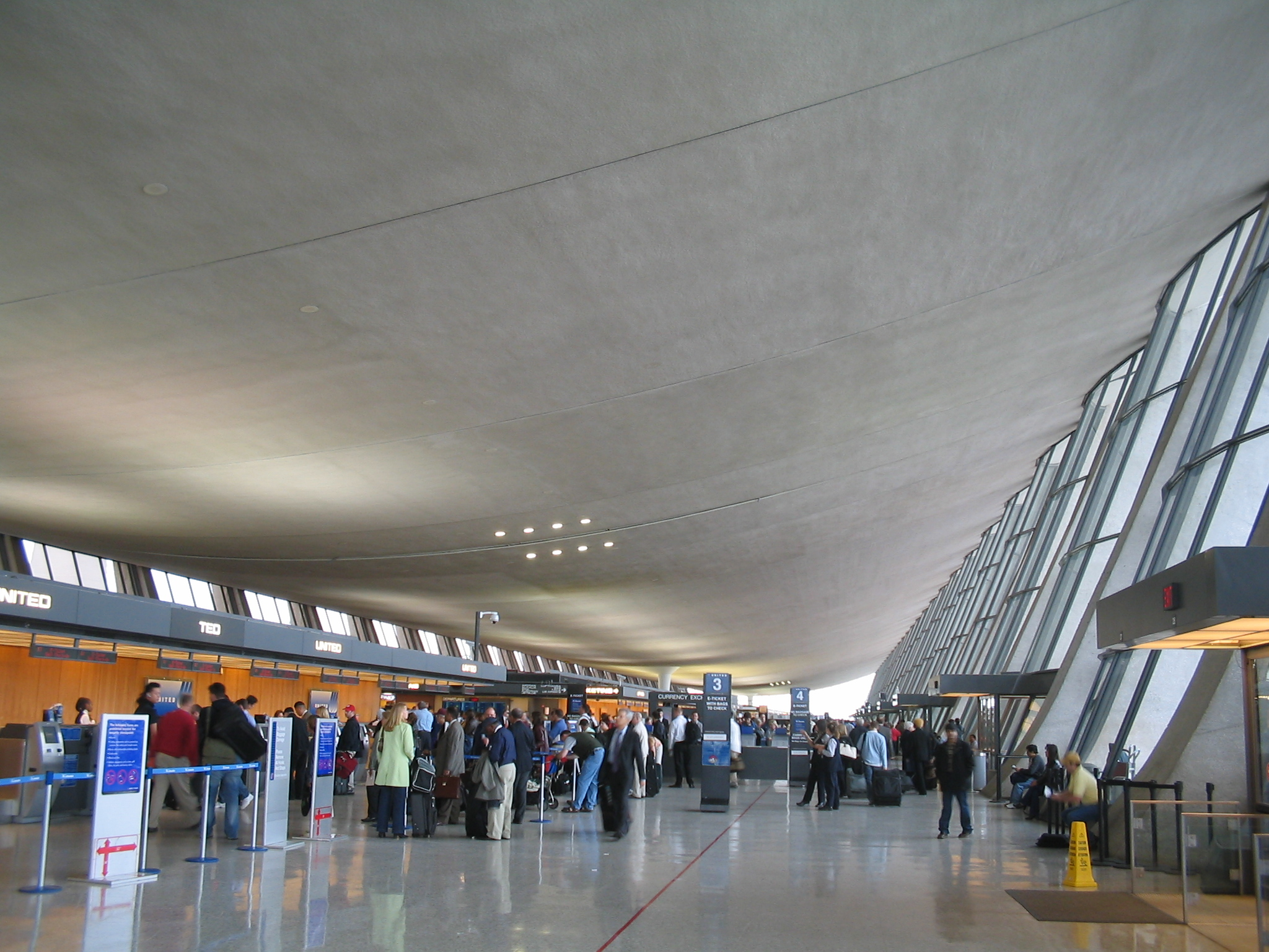 Inside the main terminal of Washington Dulles International Airport. David Benbennick took the picture on Friday, April 22, 2005 at 4:24 PM (local time).